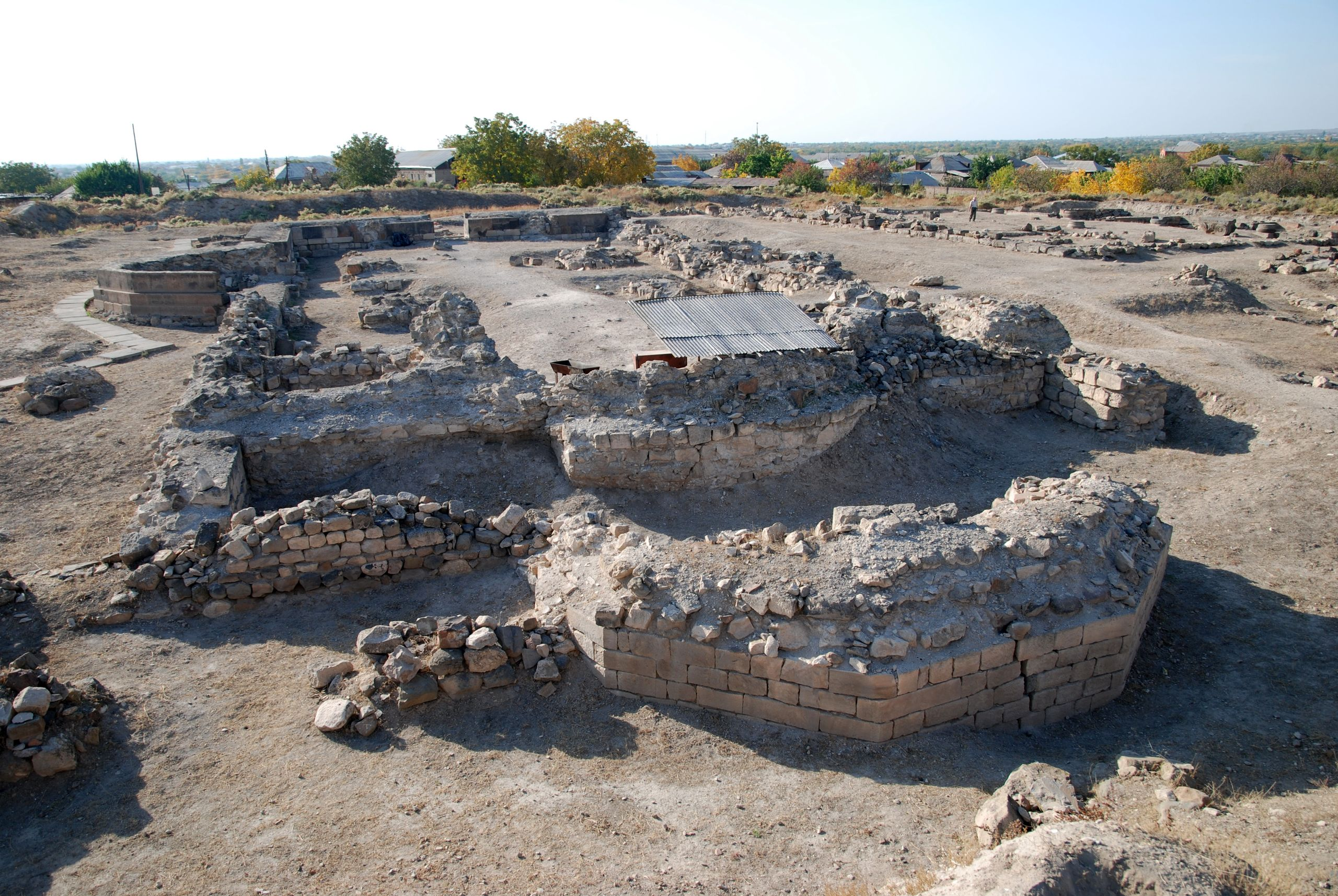 Dvin, cathedral from east